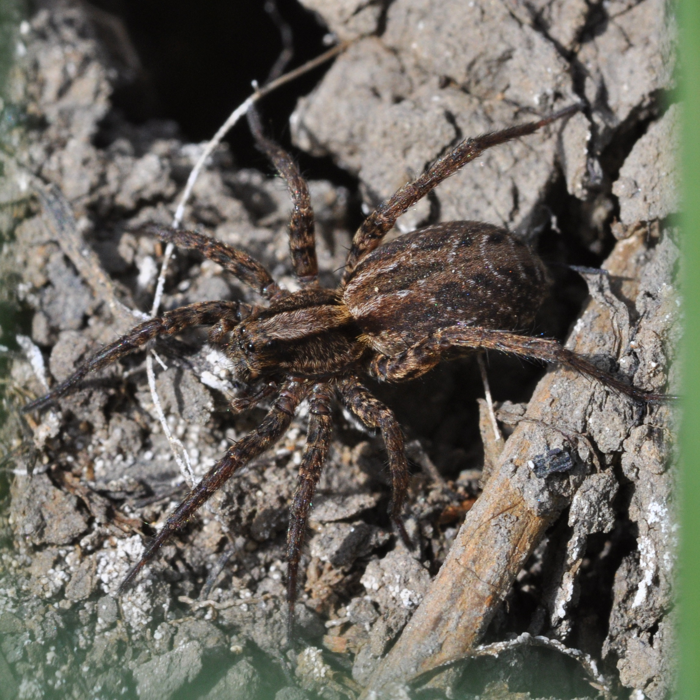 Wolf spider Alopecosa pulverulenta in Kirchwerder, Hamburg.